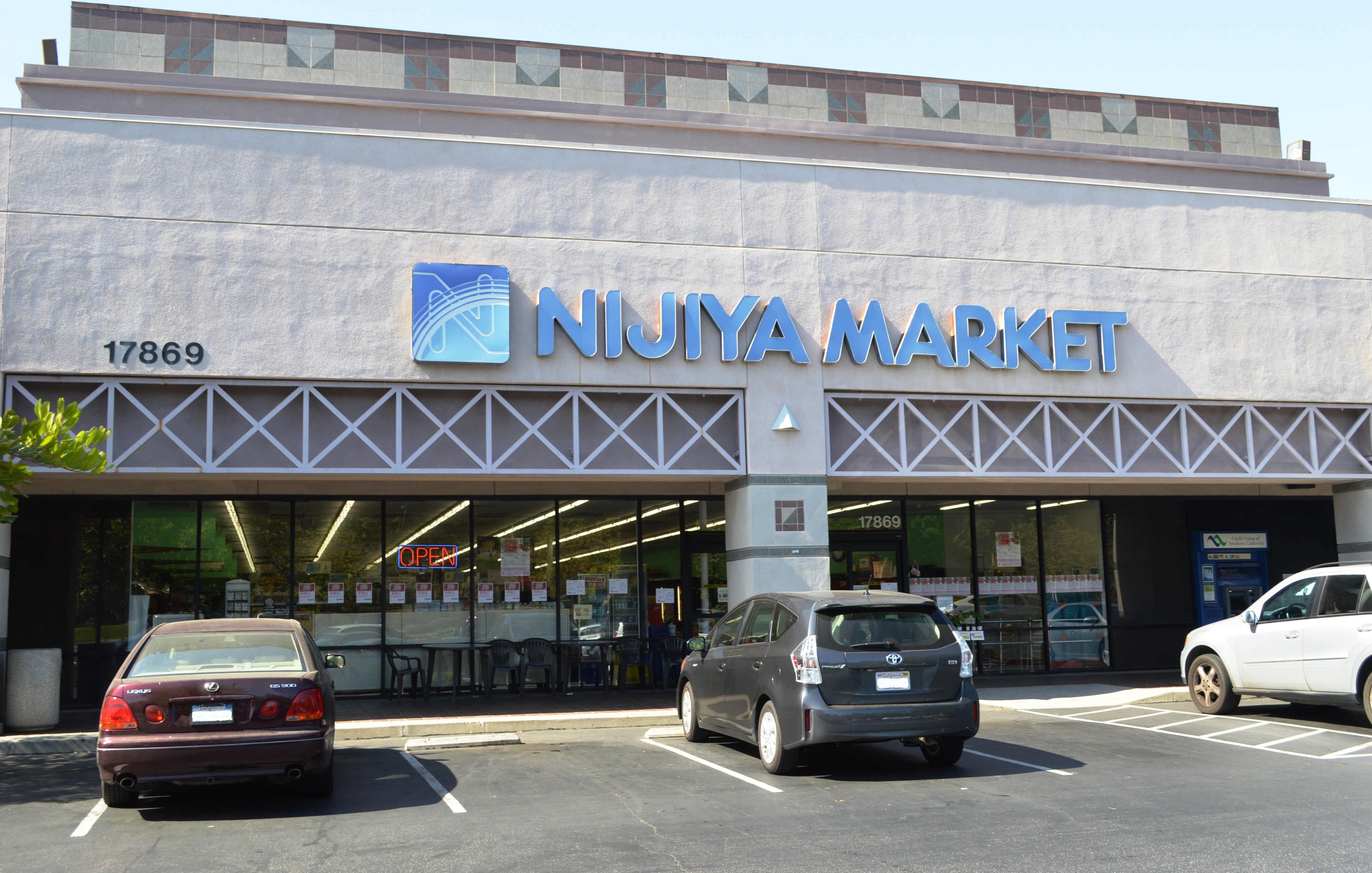 Nijiya Market - Puente Hills, City of Industry, Los Angeles County, California.